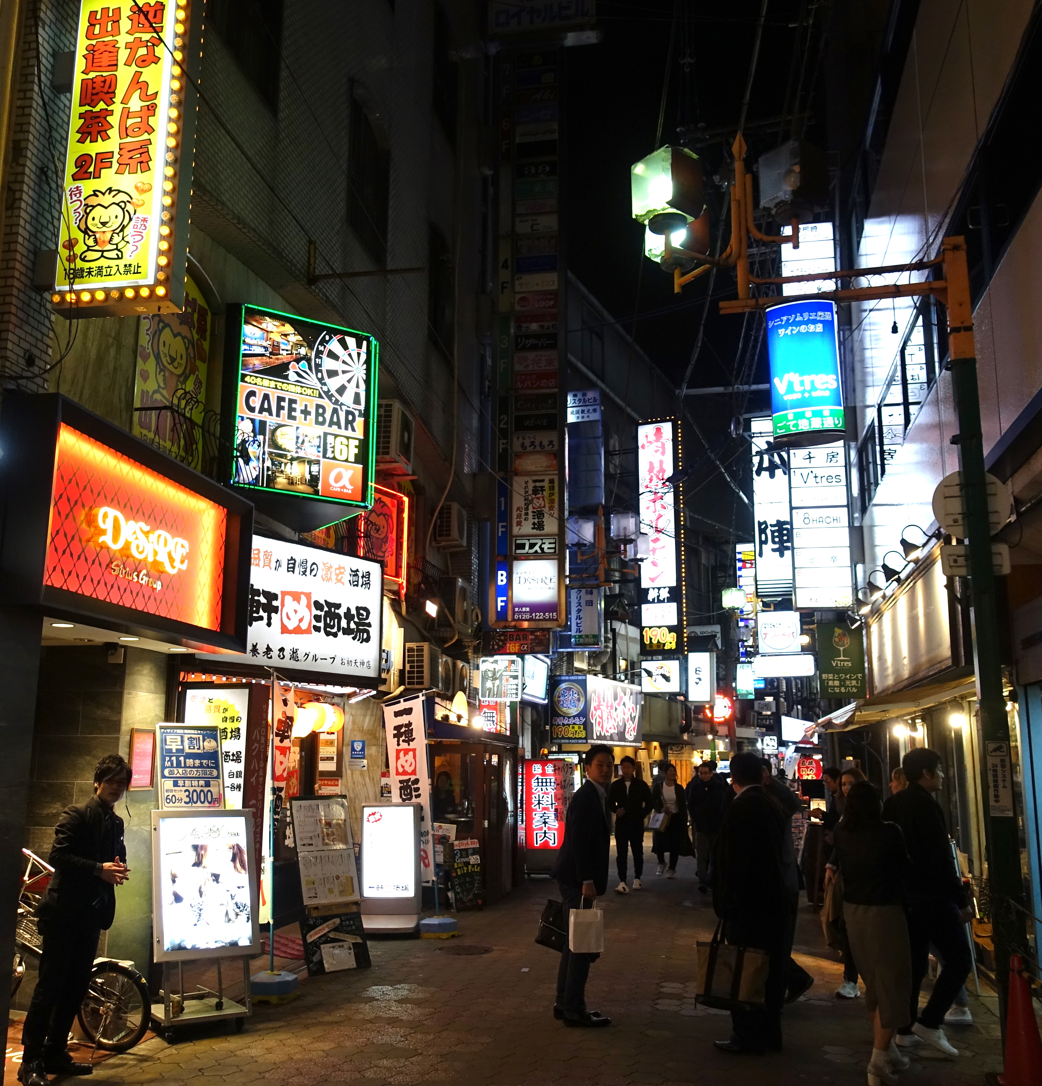 Night view of a street in Sonezaki, Osaka.